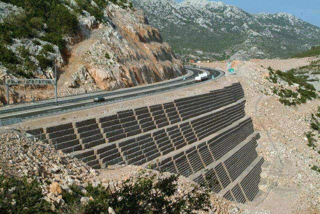 A mountainside gabion. Reinforced earth with gabions, Sveti Rok, Croatia.